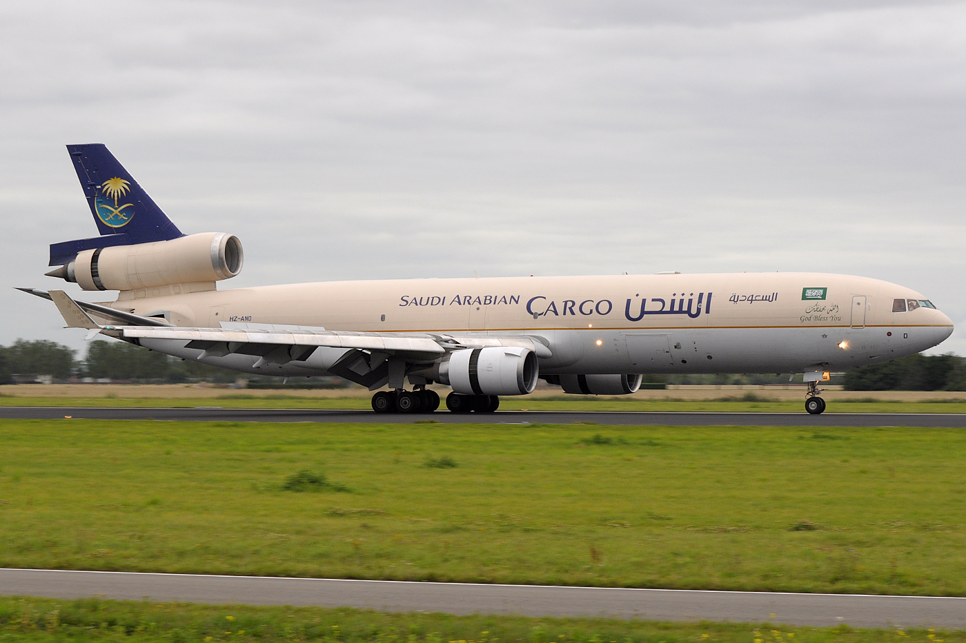 A Saudi Arabian Airlines Cargo MD-11F in Amsterdam Schiphol